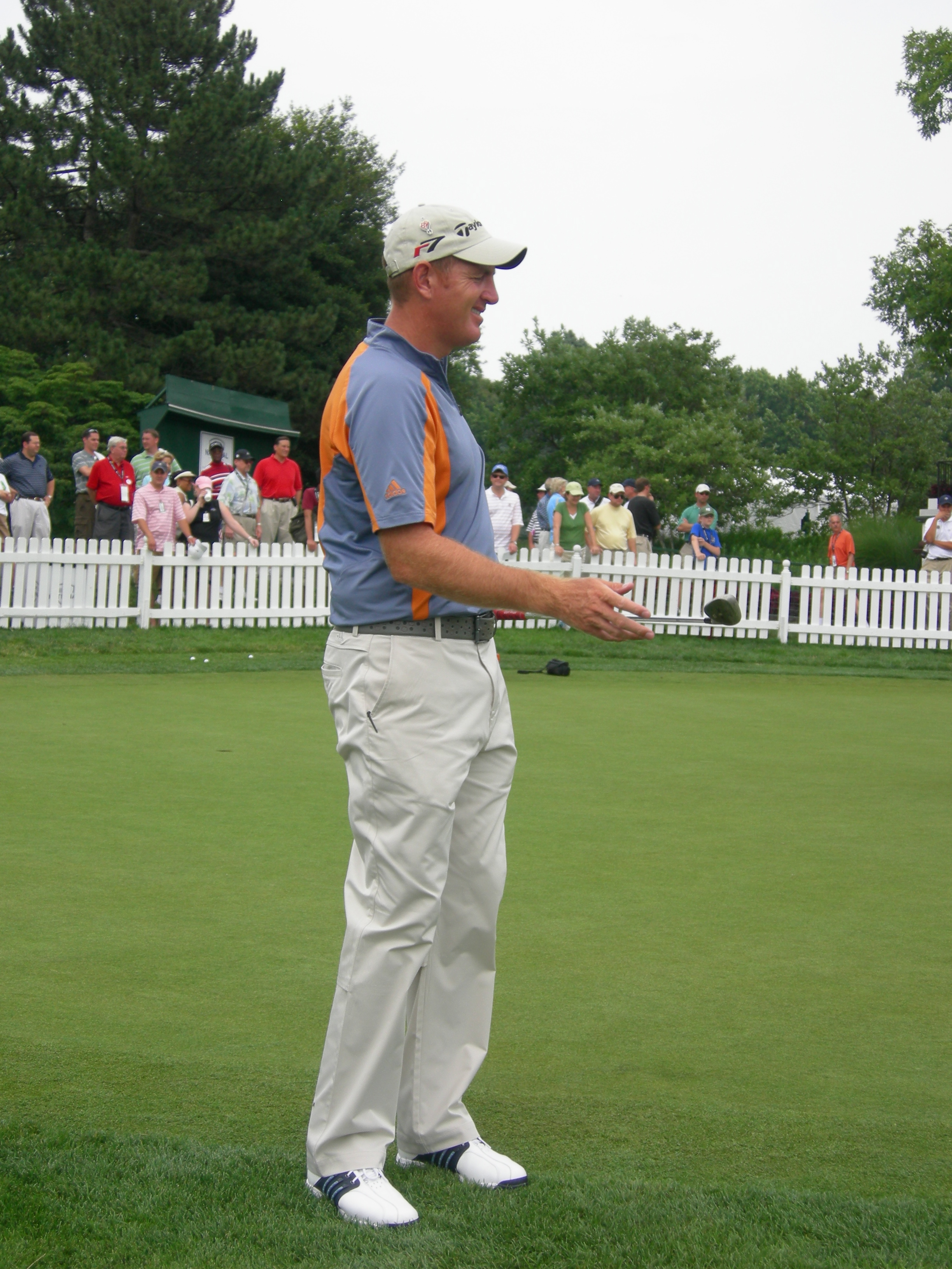 Greg Owen on the putting green at the Congressional Country Club during the Earl Woods Memorial Pro-Am prior to the 2007 AT&T National tournament.